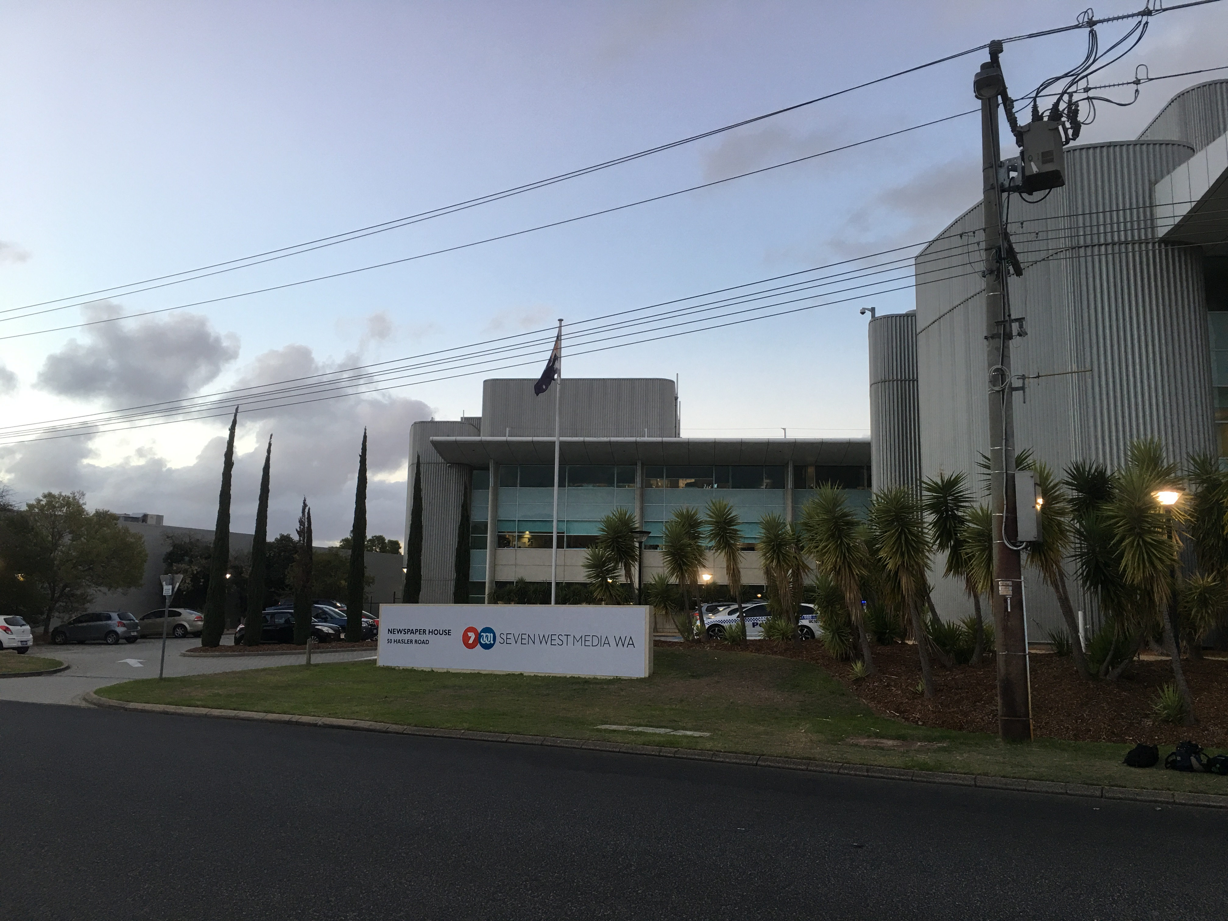 The front entrance of Newspaper House, Seven West Media